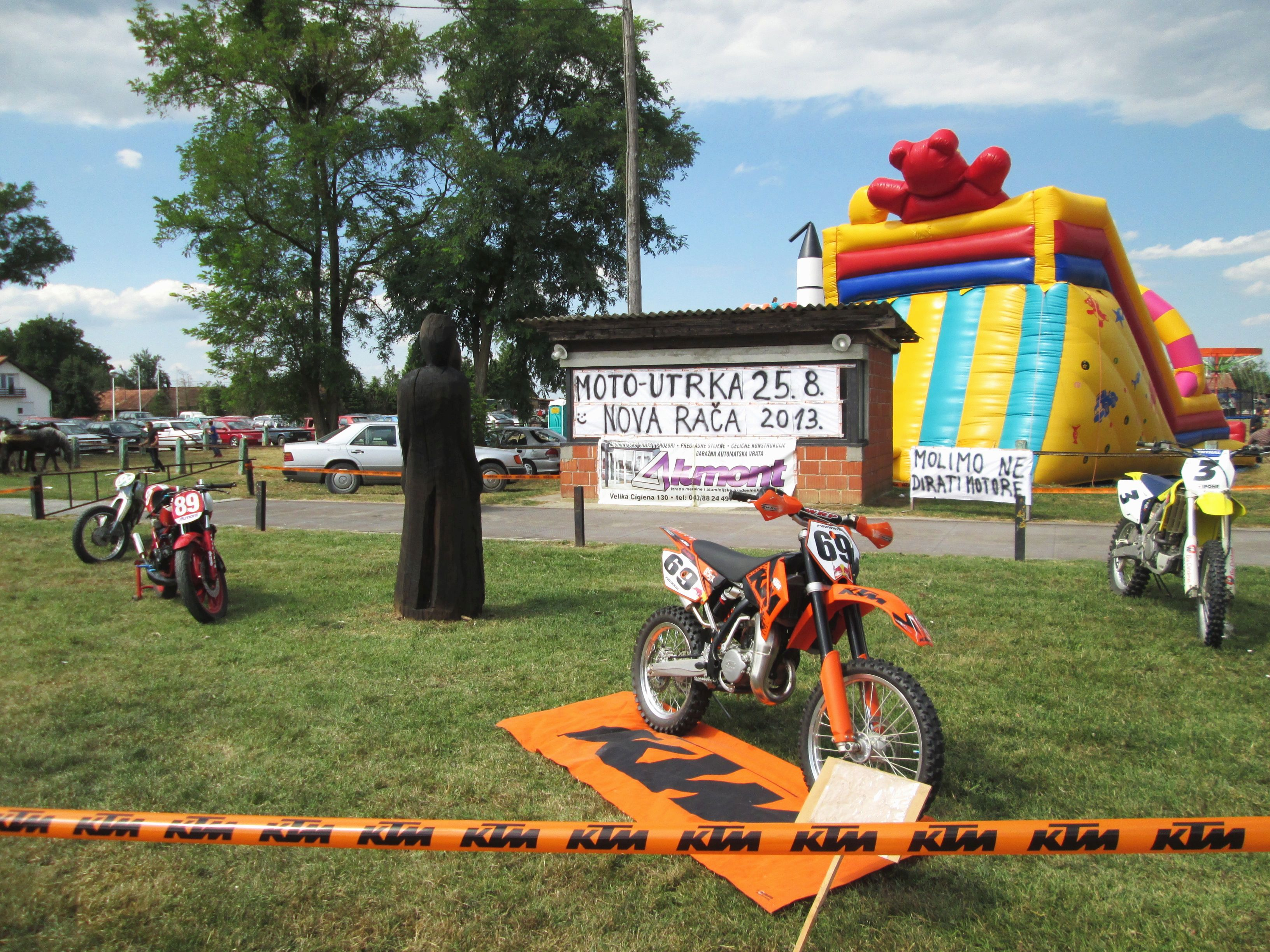 Nova Rača, Croatia